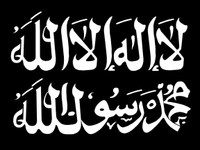 The flag of Fatah al-Islam, an al-Qaeda affiliate in Lebanon and Syria.